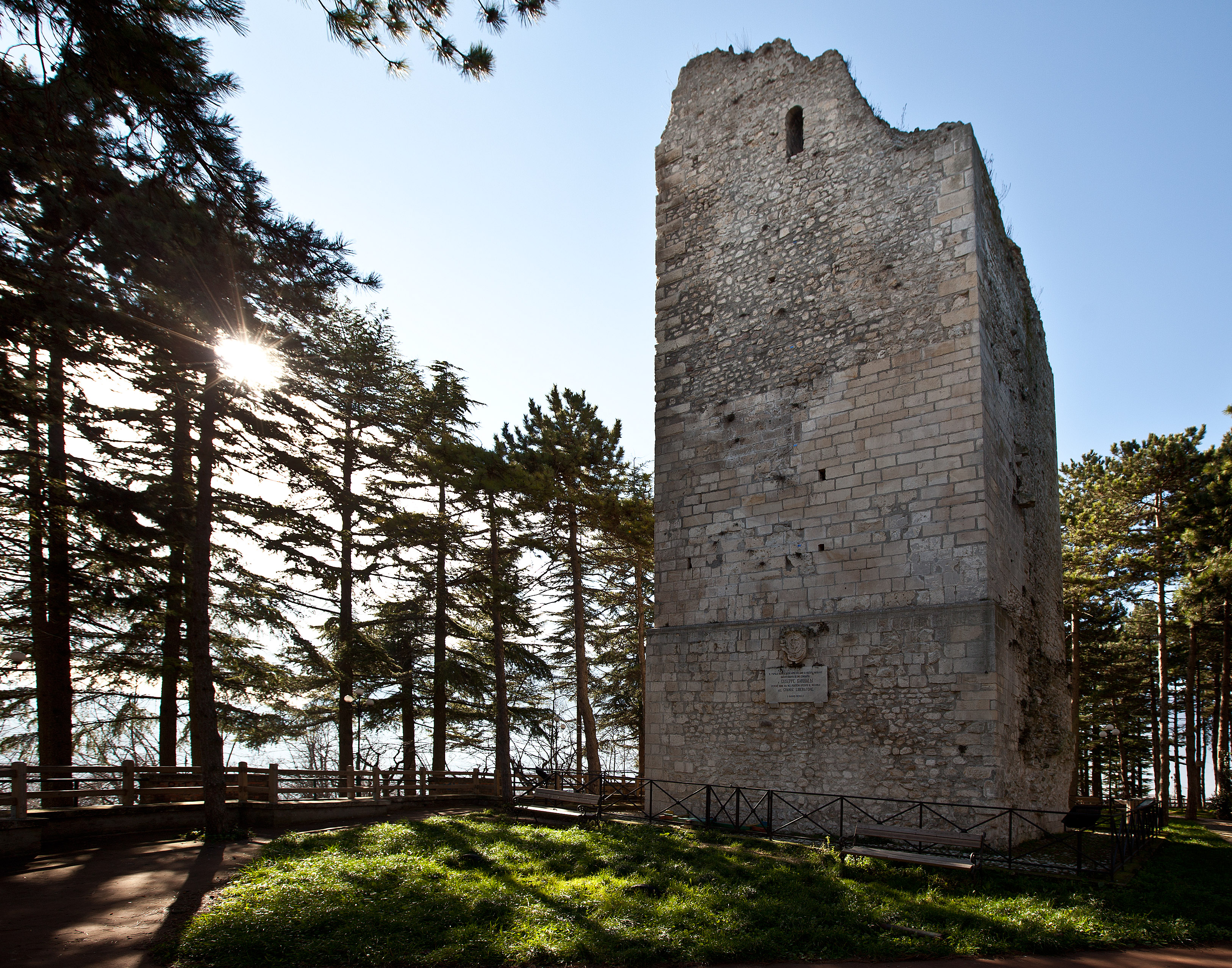 The Torrione Orsini (Orsini Tower) next to the Largo Garibaldi (Garibaldi Square) at the south end of the historical town of Guardiagrele, Italy